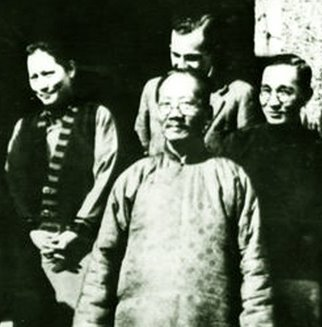 (from left to right) Agnes Smedley, George Bernard Shaw, Soong Ching-ling, Cai Yuanpei, Harold R. Isaacs, Lin Yutang and Lu Xun